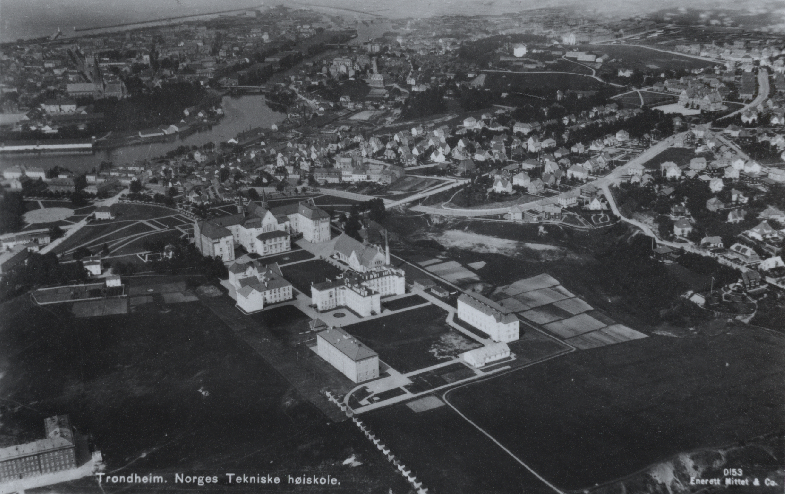 Format: Fotopositiv (fra et postkort) Dato / Date: Ukjent Fotograf / Photographer: Mittet & Co. Sted / Place: Gløshaugen, Trondheim Wikipedia: Gløshaugen Wikipedia: Norges tekniske høgskole Eier / Owner Institution: Trondheim byarkiv, The Municipal Archives of Trondheim Arkivreferanse / Archive reference: Tor.H45.F9497